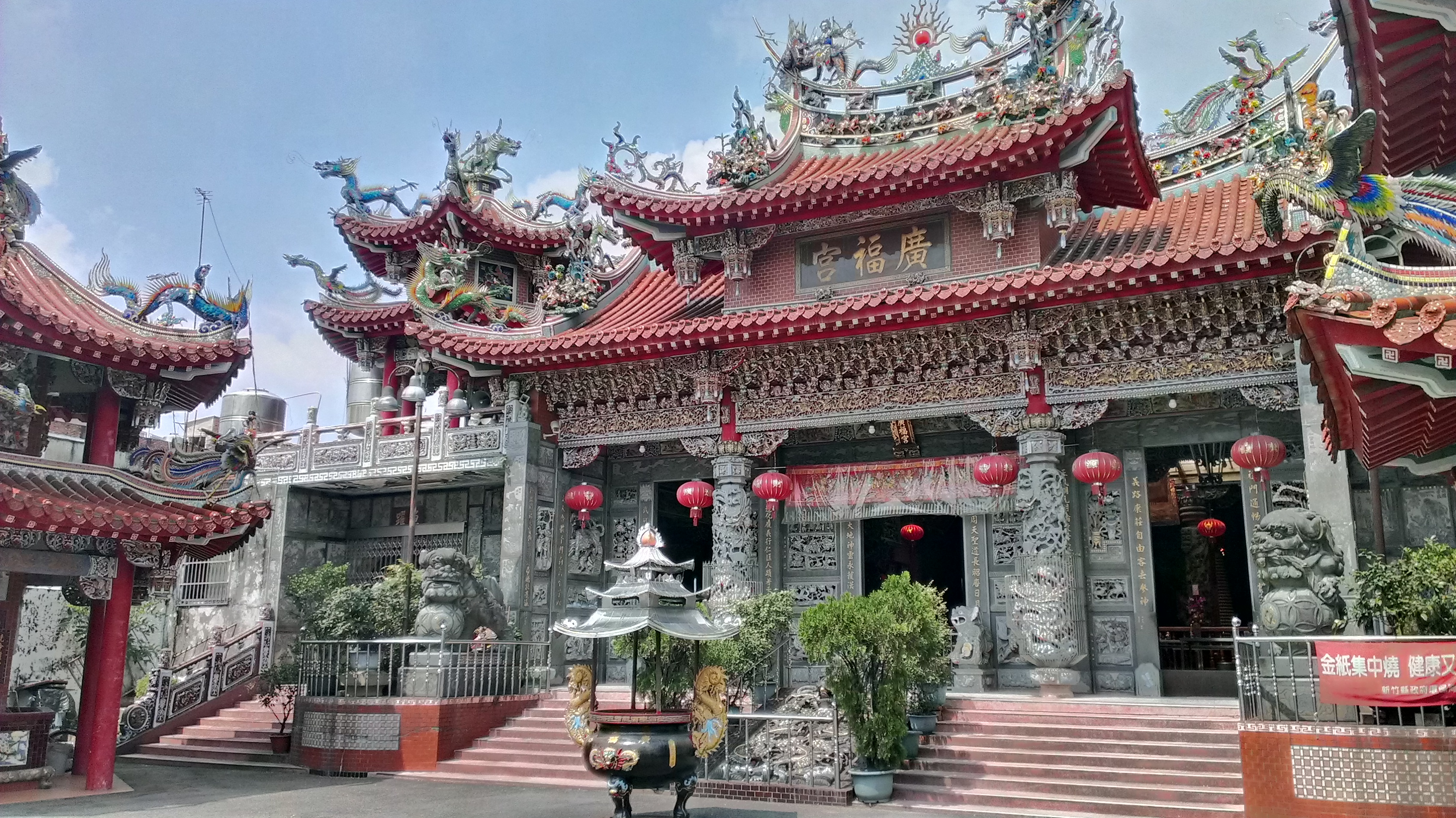 Guanfu Temples in Qionglin Township, Hsinchu County.中文（台灣）: 臺灣新竹縣芎林鄉之廣福宮